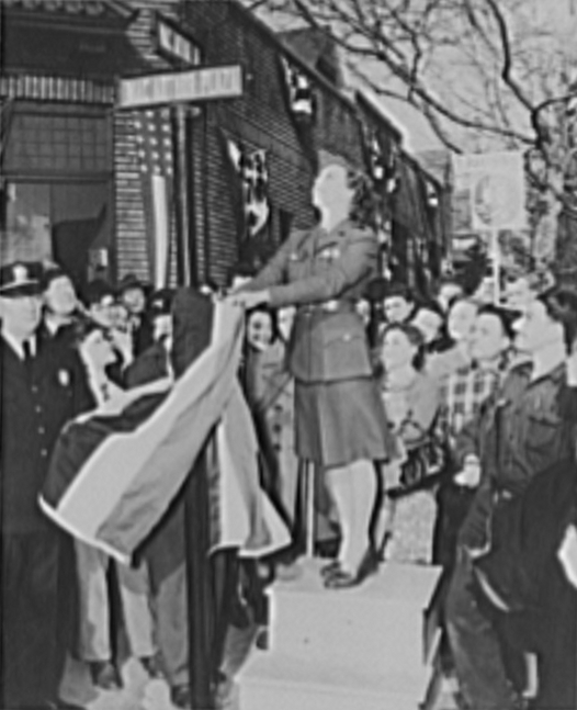 War production drive. As part of the war production drive, streets at the Bloomfield, New Jersey Westinghouse plant were renamed MacArthur Avenue and MacArthur Plaza. A pretty girl is shown unveiling the street sign. Note: Westinghouse Lamp Plant was a manufacturer of uranium metal for the Chicago Pile-1 as part of the Manhattan Project.